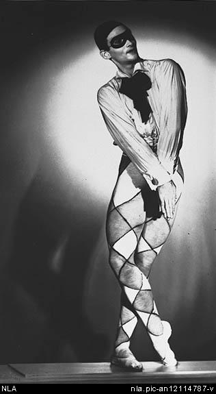 Igor Youskevitch (Ukrainian Ігор Юшкевич) in Le Carnaval, between 1936–37. Photo by Max Dupain.